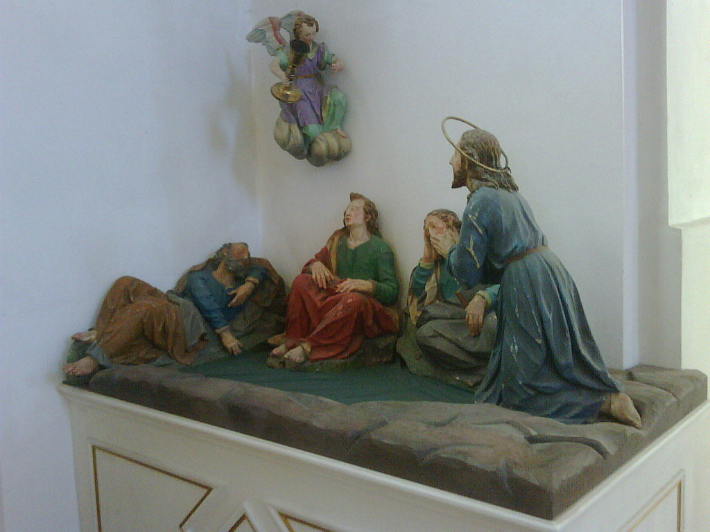 Ölbergszene by Bartelme Steinle